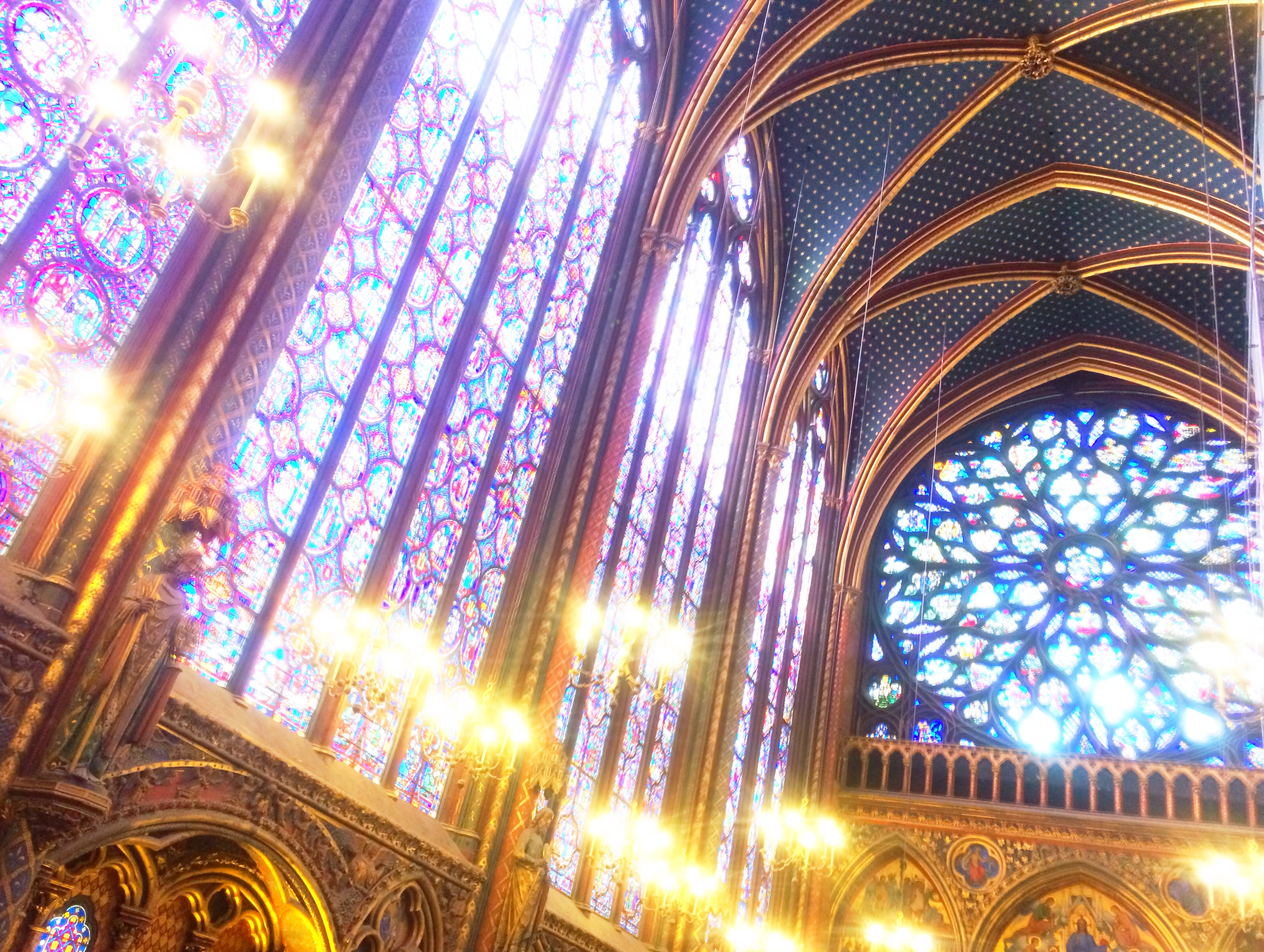 Sainte-Chapelle (Paris)